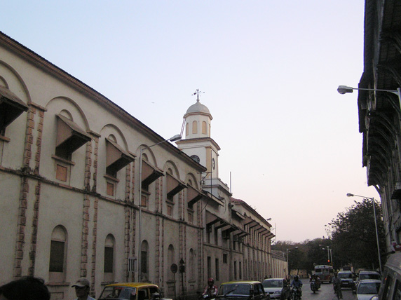 Outside the naval dockyard